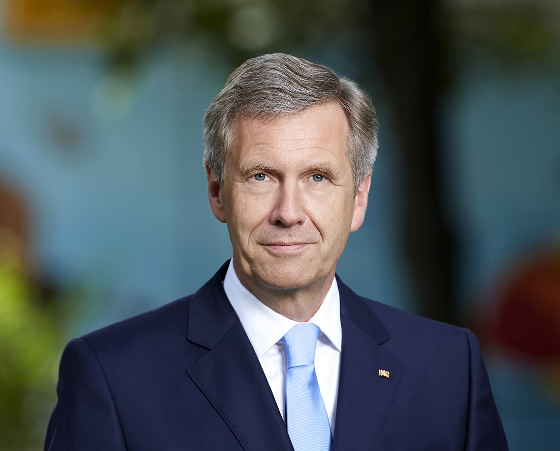 Christian Wulff, former President of Germany